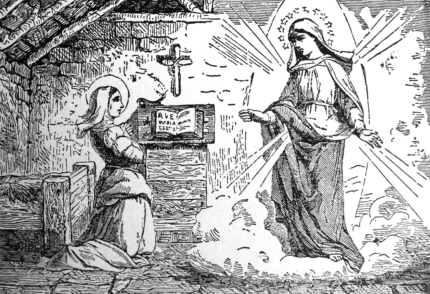 Blessed Veronica of Milan